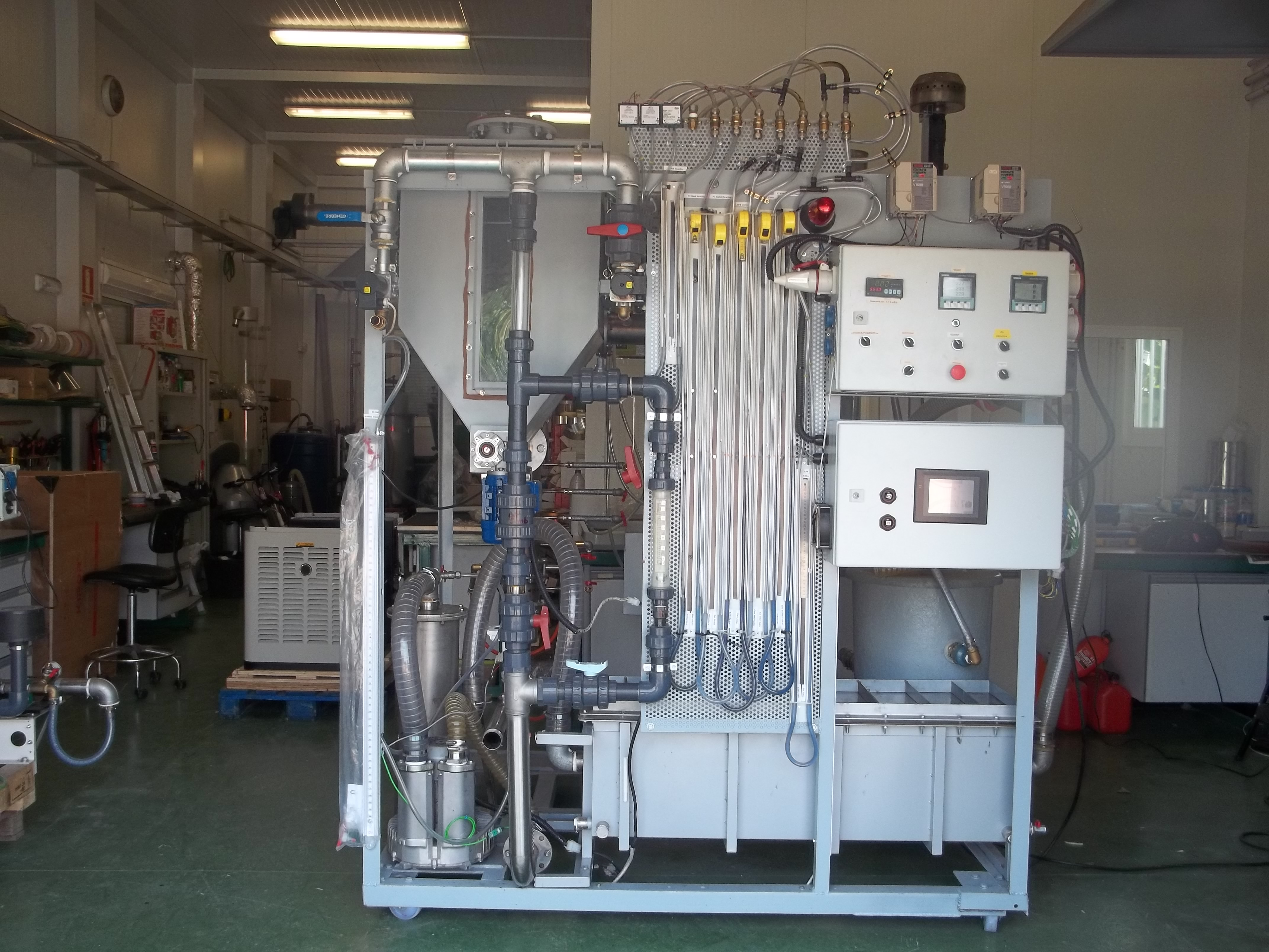 Bluidized bed biomass gasification plant